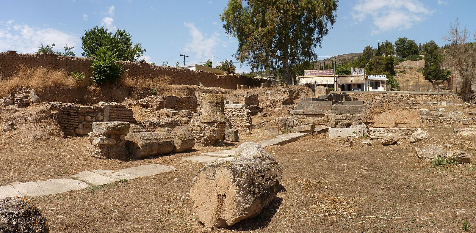 The Agora of Ancient Argos - more information visit Ploync